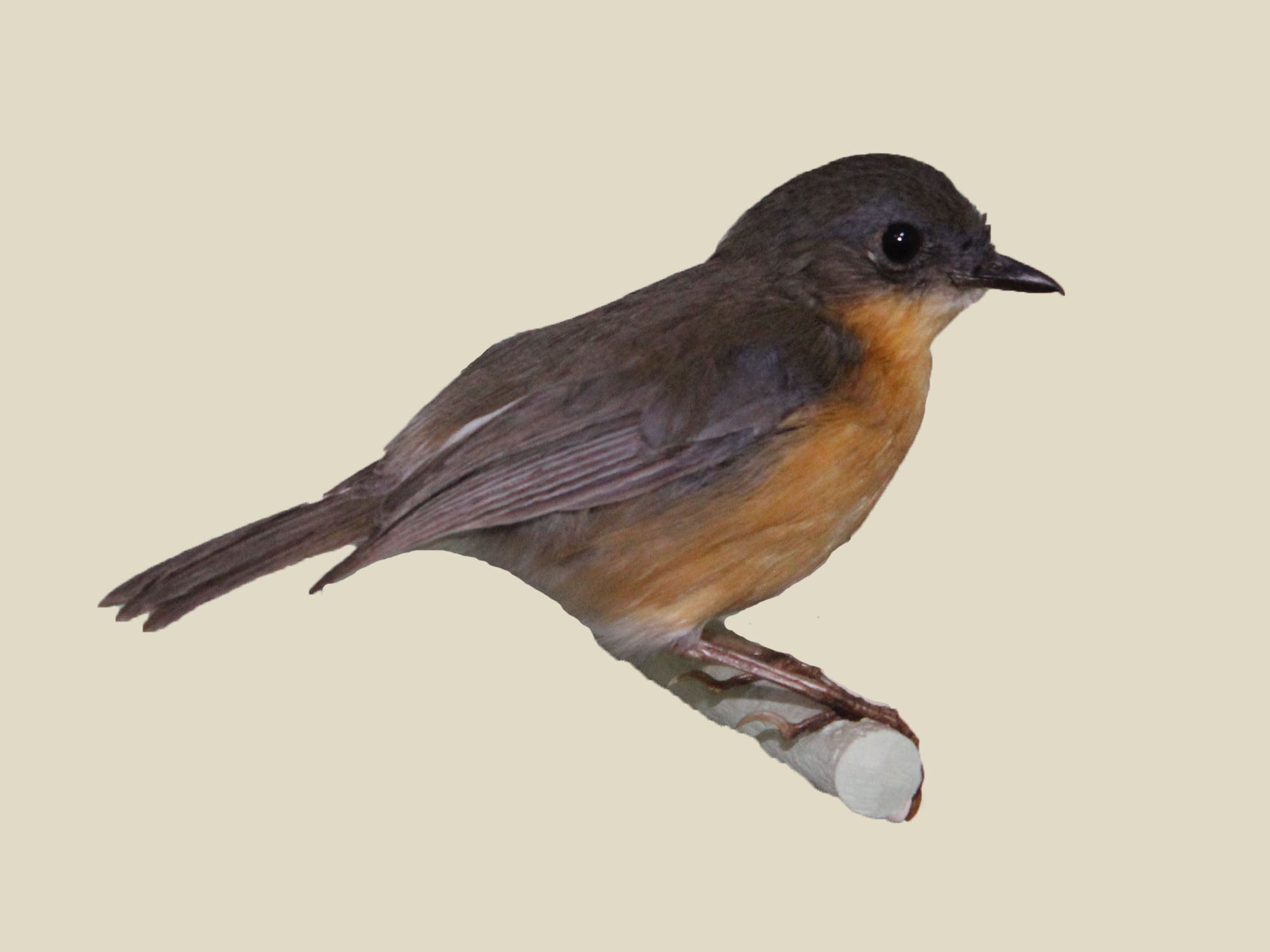 East Coast Akalat (Sheppardia gunningi)). Photograph of a specimen at Nairobi National Museum in Nairobi, Kenya.